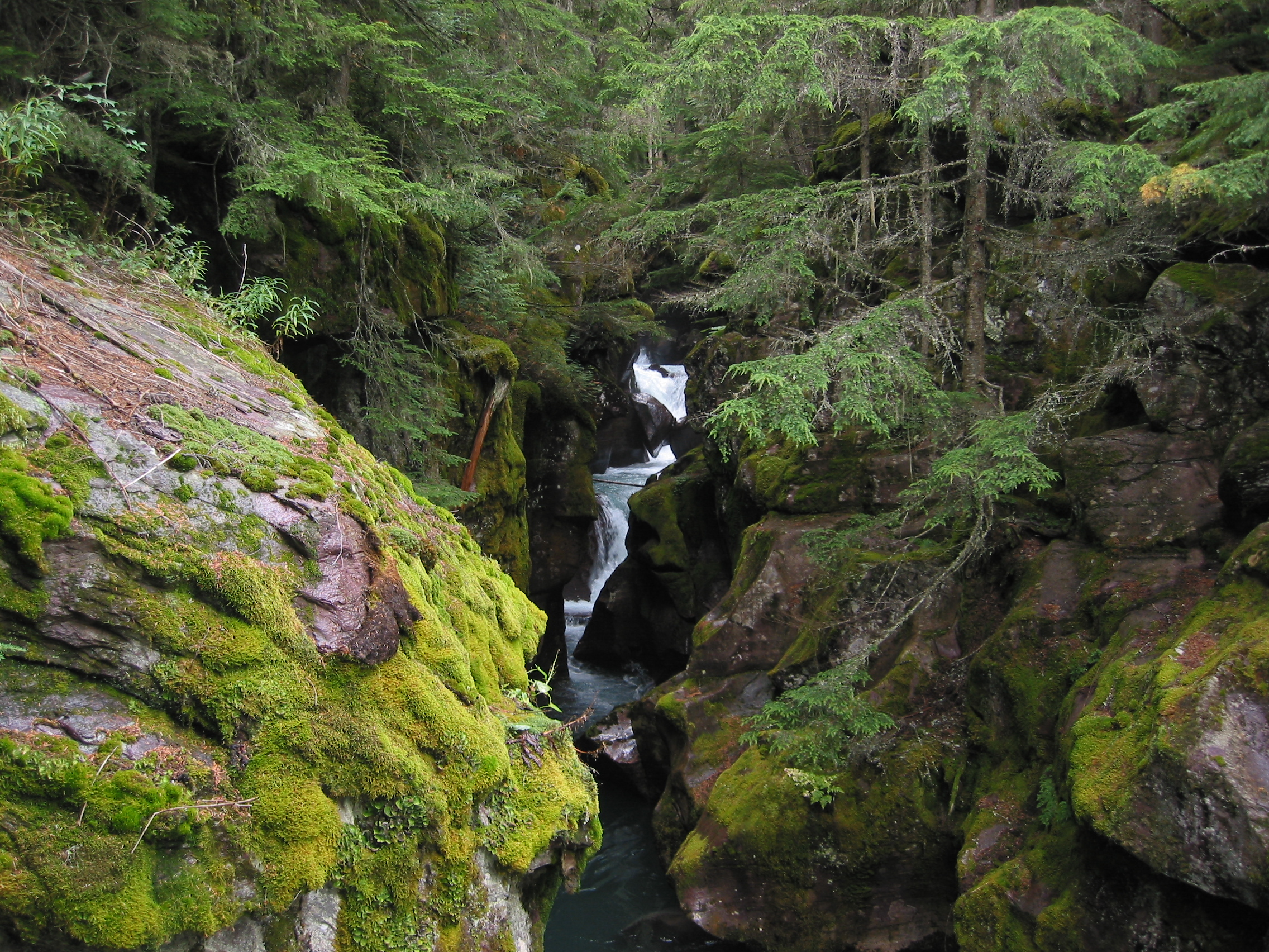 Avalanche Gorge along the Trail of the Cedars in Glacier National Park, Montana